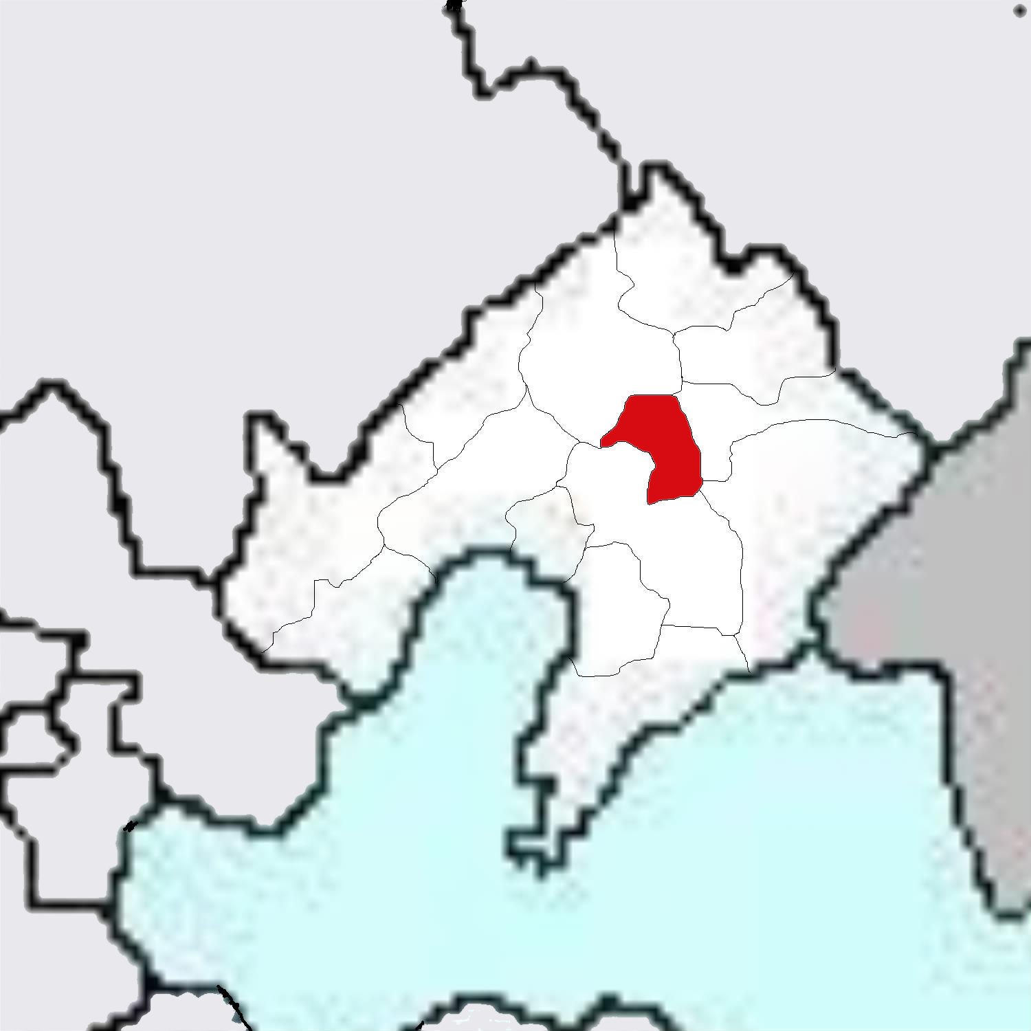 Locator map of a city Prefecture — in Liaoning Province, northeastern China